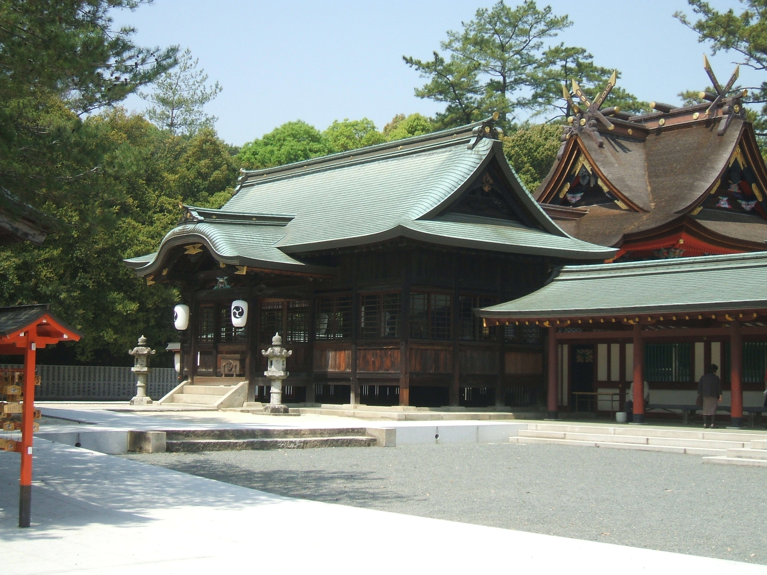 Fukuyama Hatimangu Nishagyoen